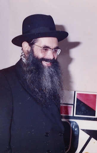 Photo of Rabbi Yonason David sometime in the 1970s.